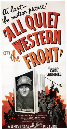 Description: Low-resolution image of poster for the movie All Quiet on the Western Front (1930), featuring star Lew Ayres.